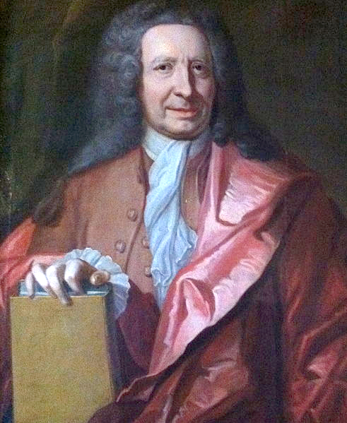 Olof Rudbeck the Younger (1660–1740) Swedish botanist. Oil painting portrait hangs in Uppsala University's Universitetshuset